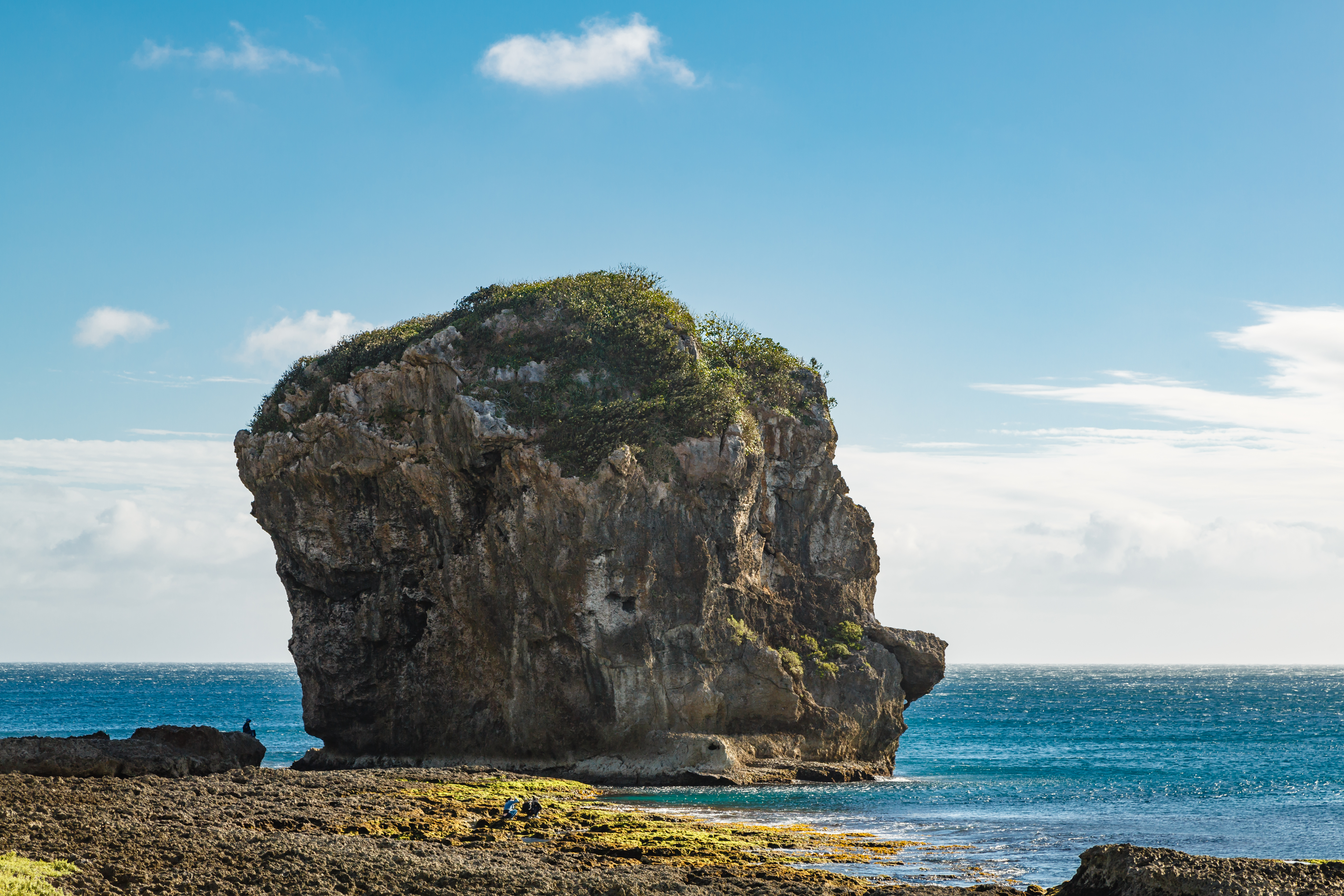 Kenting, Hengchun Township, Taiwan: Sail Rock (船帆石)